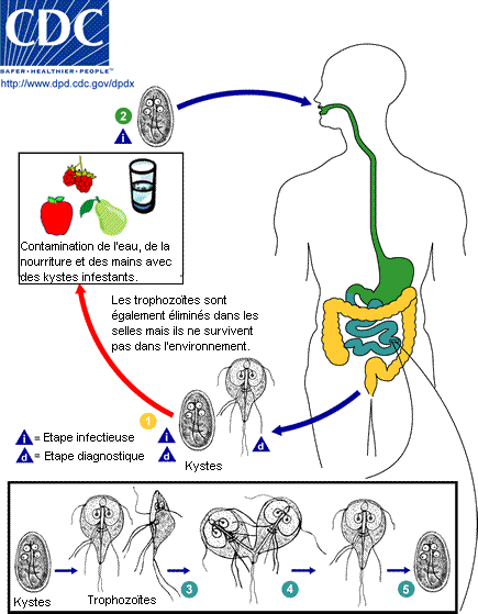 Giardiasis [Giardia intestinalis (syn. Giardia lamblia)] traduction en français des légendes de l'image suivante : Giardia_LifeCycle.gif description du cycle parasitaite de giardia lamblia illustration du CDC, center for diseases control Life cycle of Giardia intestinalis Cysts are resistant forms and are responsible for transmission of giardiasis. Both cysts and trophozoites can be found in the feces (diagnostic stages). The cysts are hardy, can survive several months in cold water. Infection occurs by the ingestion of cysts in contaminated water, food, or by the fecal-oral route (hands or fomites). In the small intestine, excystation releases trophozoites (each cyst produces two trophozoites). Trophozoites multiply by longitudinal binary fission remaining in the lumen of the proximal small bowel where they can be free or attached to the mucosa by a ventral sucking disk. Encystation occurs as the parasites transit toward the colon. The cyst is the stage found most commonly in non-diarrheal feces. Because the cysts are infectious when passed in the stool or shortly afterward, person-to-person transmission is possible. While animals are infected with Giardia, their importance as a reservoir is unclear.